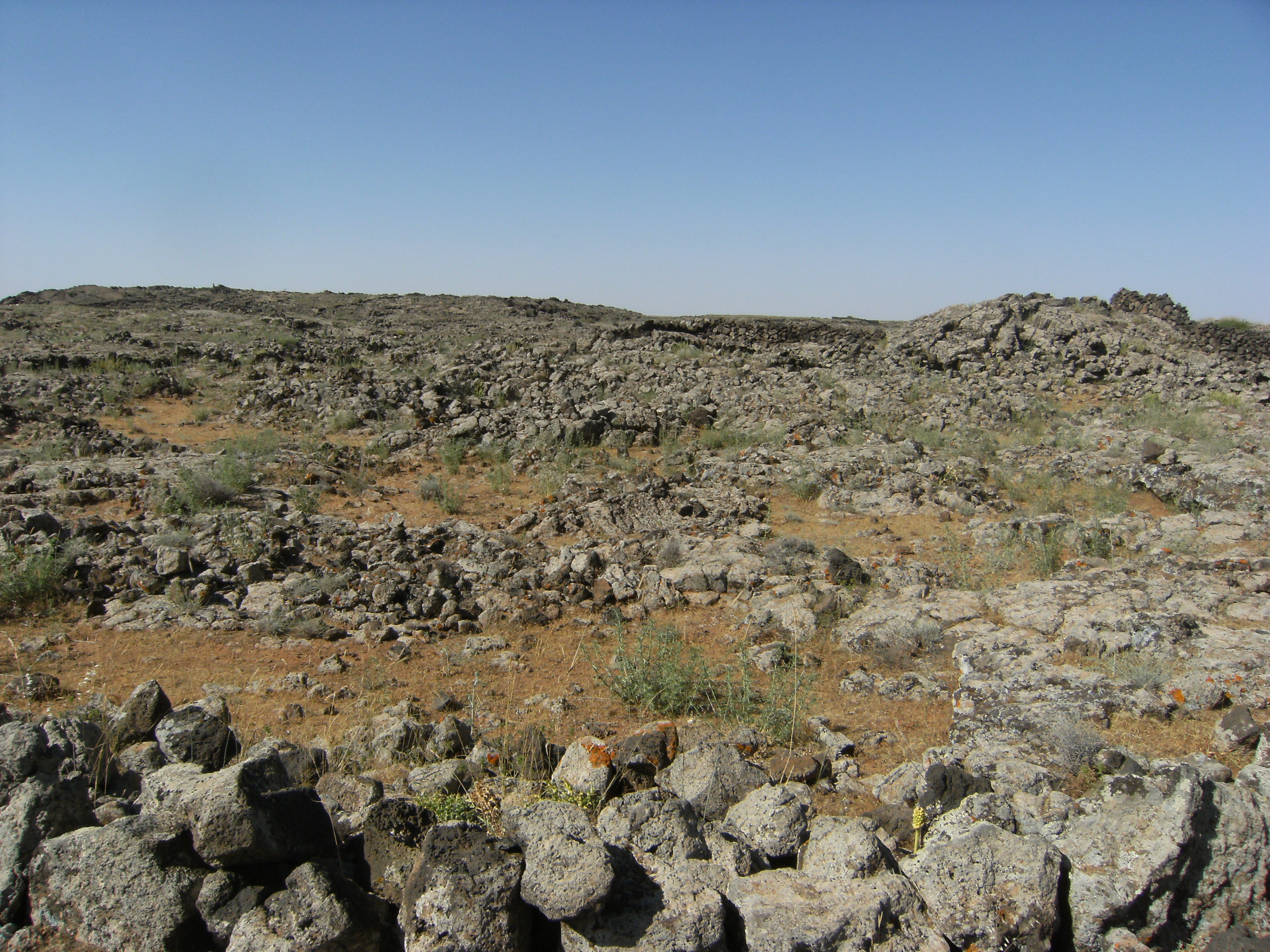 tion Lajat biosphere reserve volcanic plates, Syria.